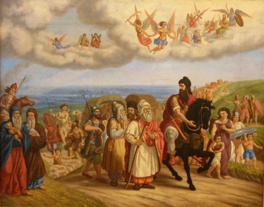 Аsparukh and his retinue on the road to Danube by Nikolai Pavlovich Аспарух с дружината си на път към Дунава Н. Павлович